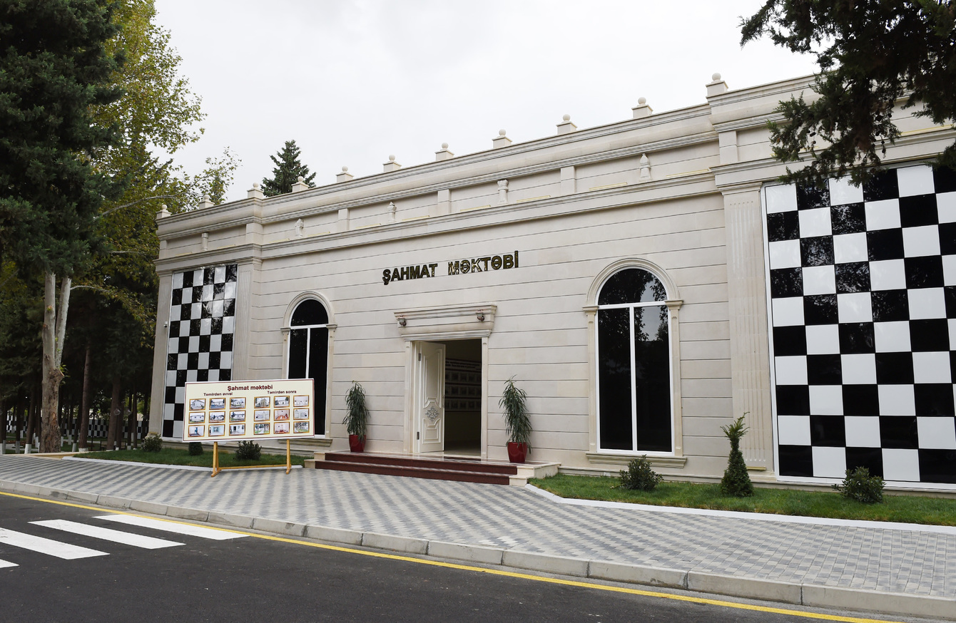 opening of the newly-reconstructed Aghsu Chess School